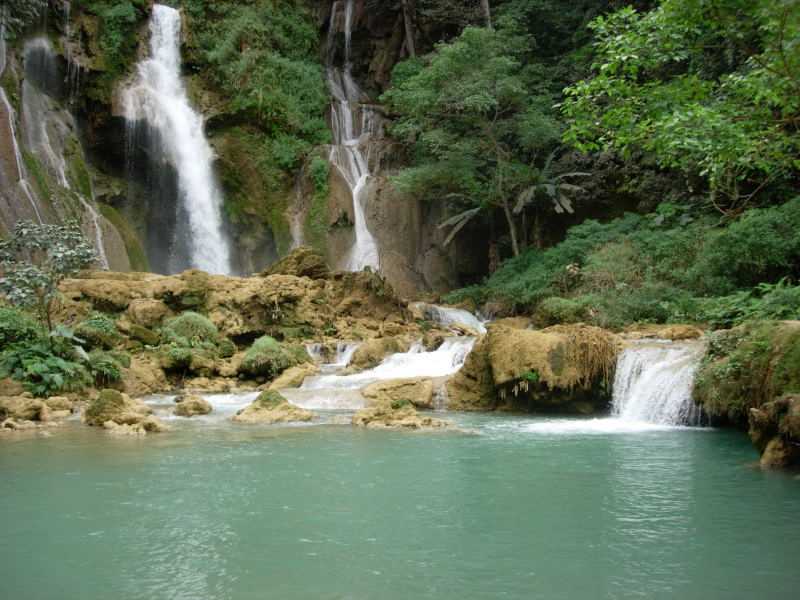 Kuang Si Falls, less than an hours drive from Luang Prabang